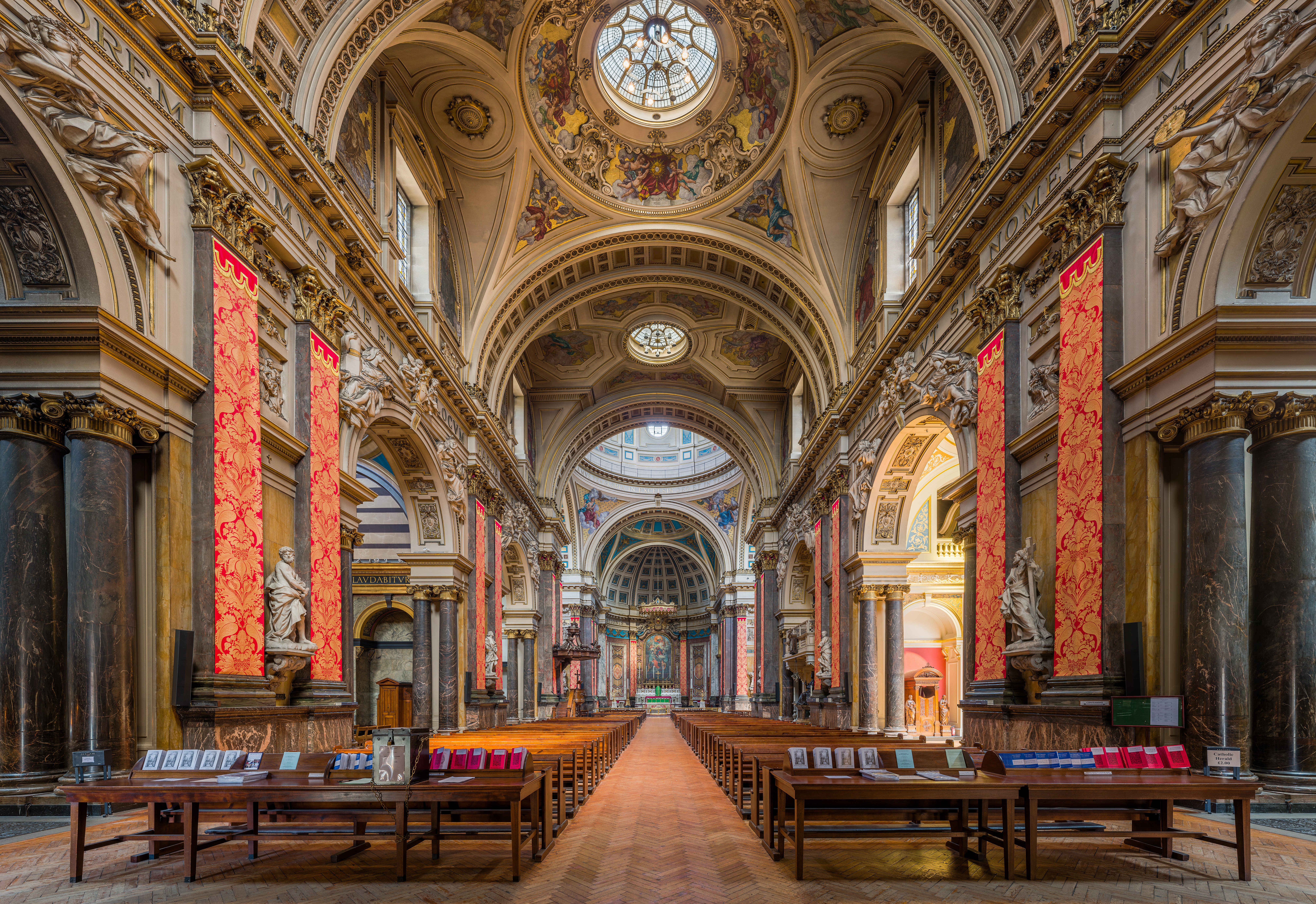 The nave of Brompton Oratory in London, England.